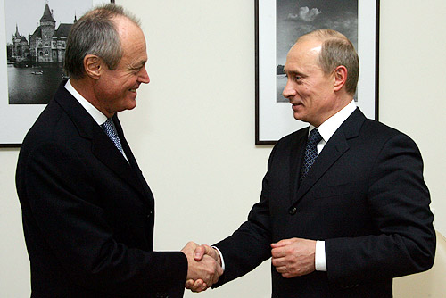 BUDAPEST. With former Prime Minister of Hungary Peter Medgyesy.